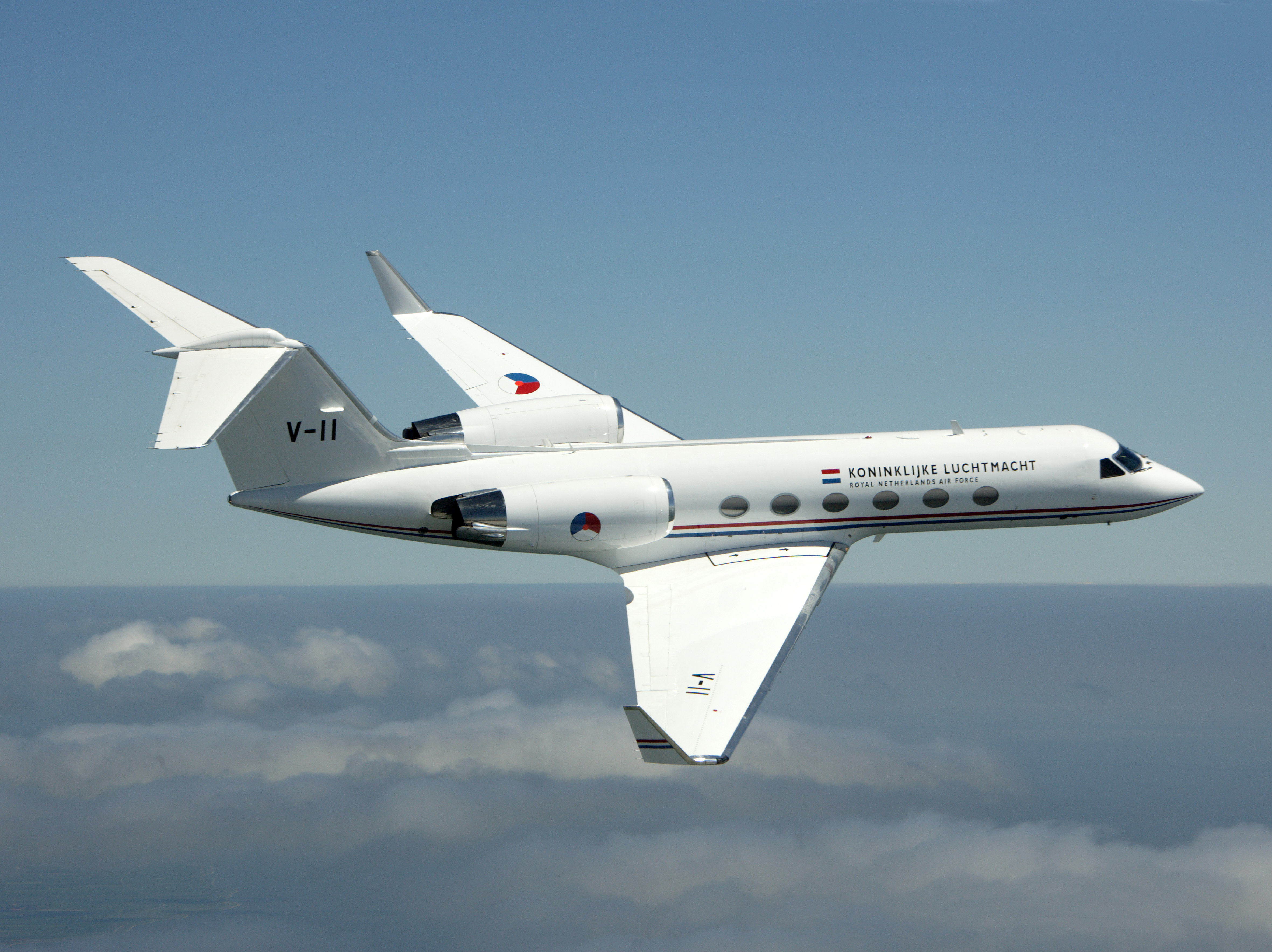 A Gulfstream IV of the Royal Netherlands Airforce